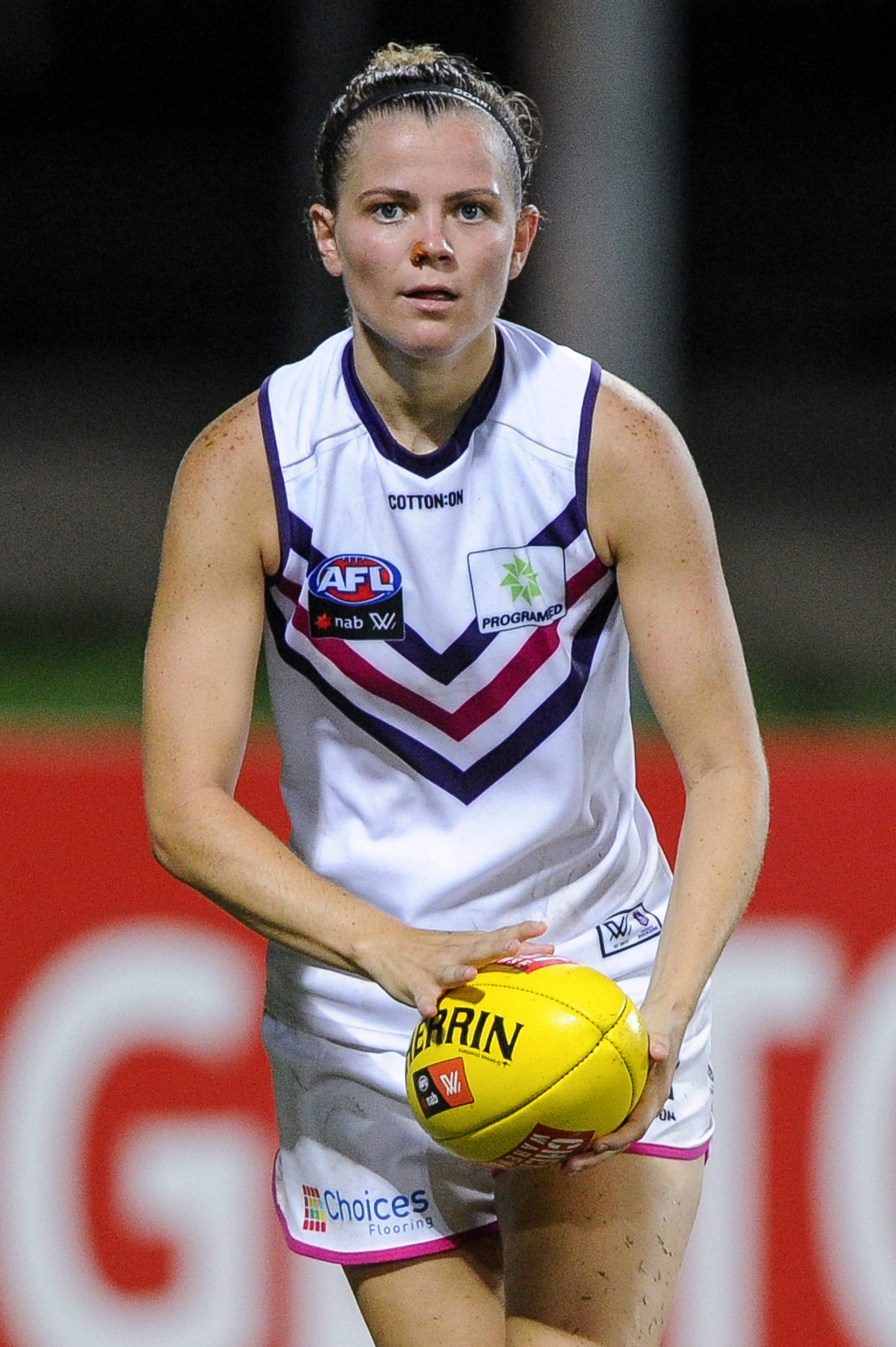 Cassie Davidson in the AFL Women's preseason match between the Adelaide Football Club and Fremantle Football Club on 20 January 2018 at TIO Stadium.